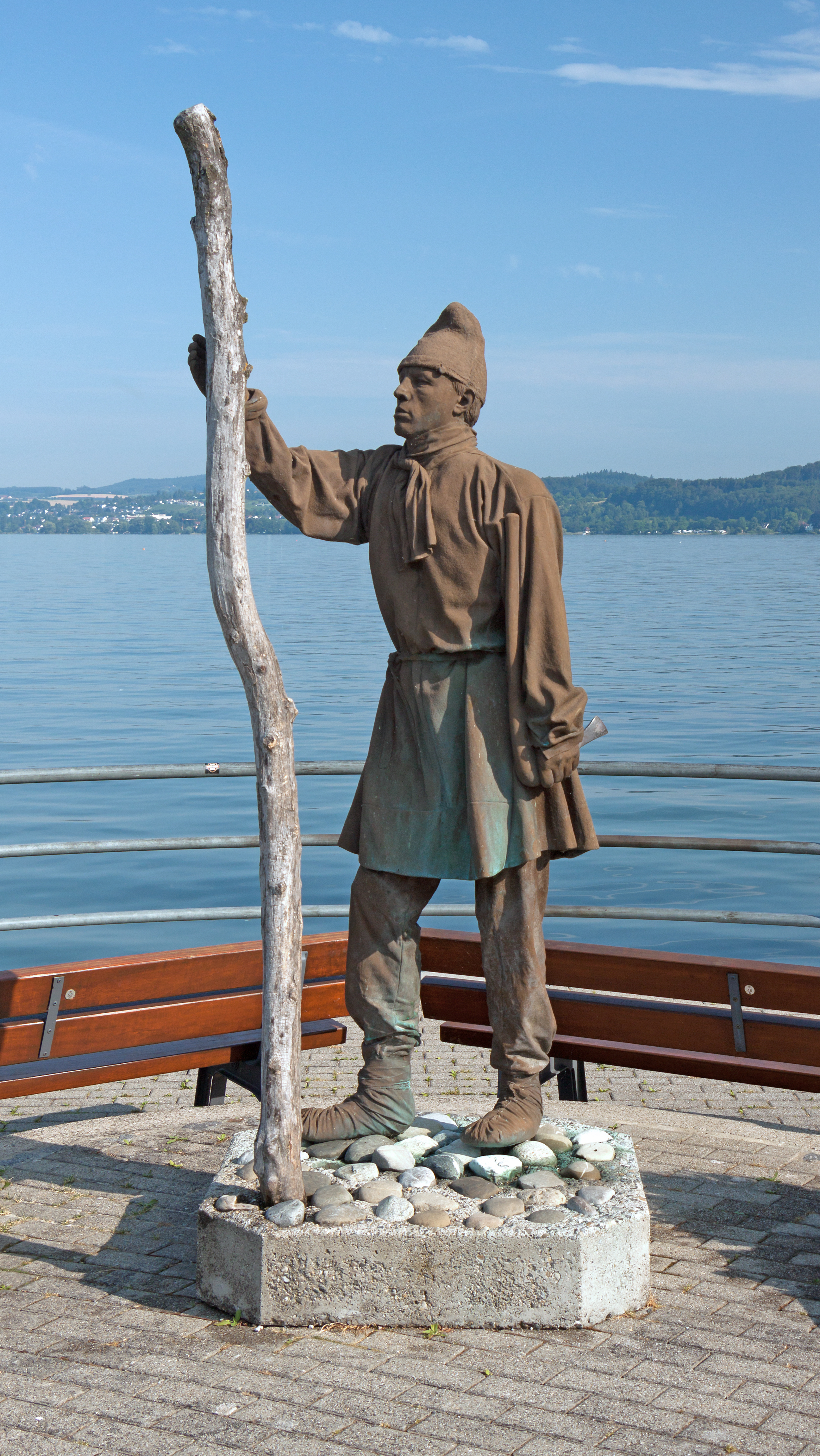 Statue of a pile dweller, Uhldingen-Mühlhofen, Lake Constance, Germany.